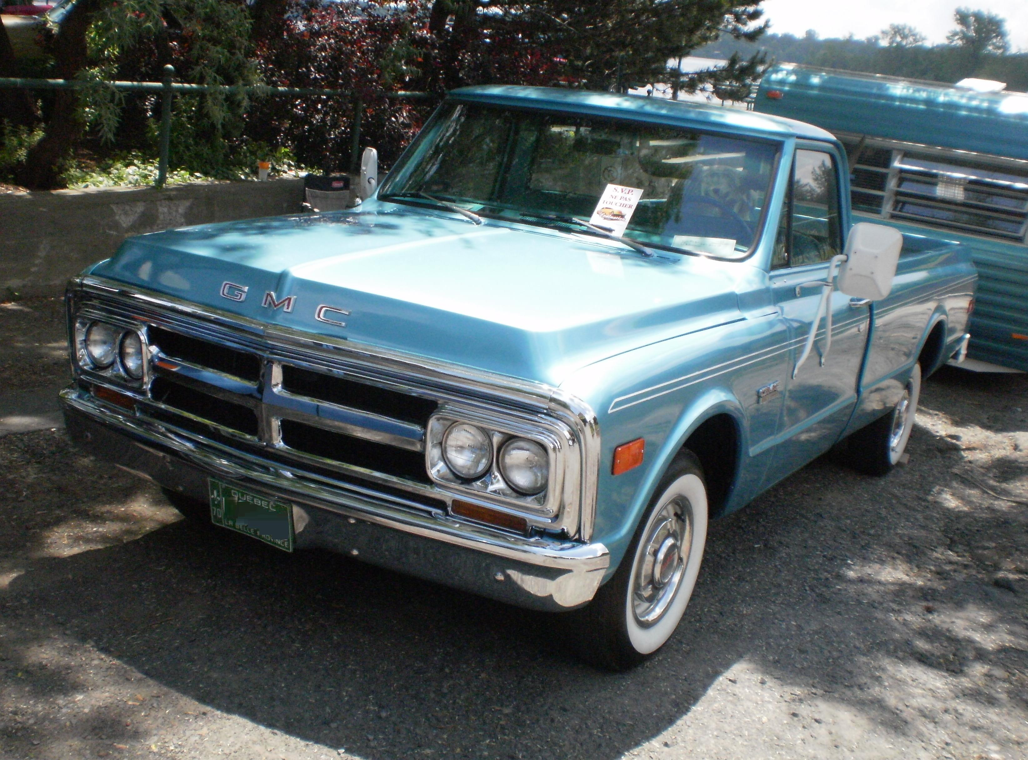 1970 GMC C/K photographed in Ste. Anne De Bellevue, Quebec, Canada at Crusin' At The Boardwalk 2011.